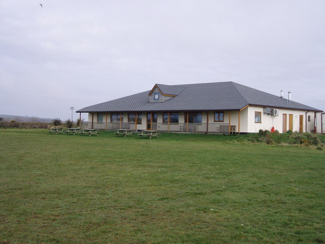 St Buryan Cricket Club pavilion. On the edge of the village, just next to the cemetery. The cricket field is also used for football in the winter.